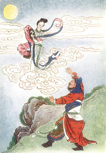 Chang'e flies to the moon. The image is captioned in the source as: Hêng Ô Flies to the Moon